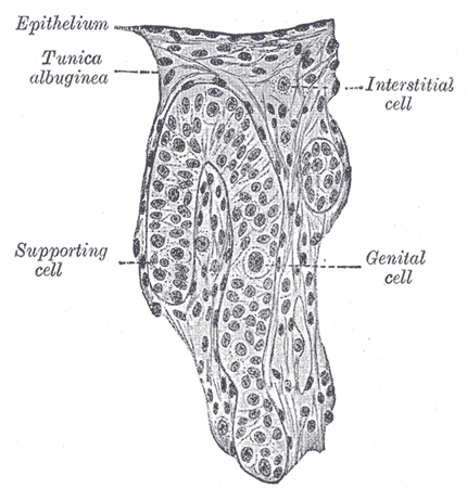 Section of a genital cord of the testis of a human embryo 3.5 cm. long. (Felix and Bühler.)